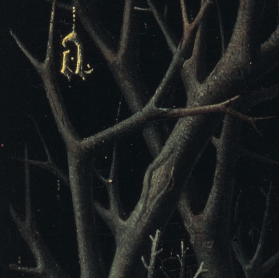 Madonna of the Dry Tree